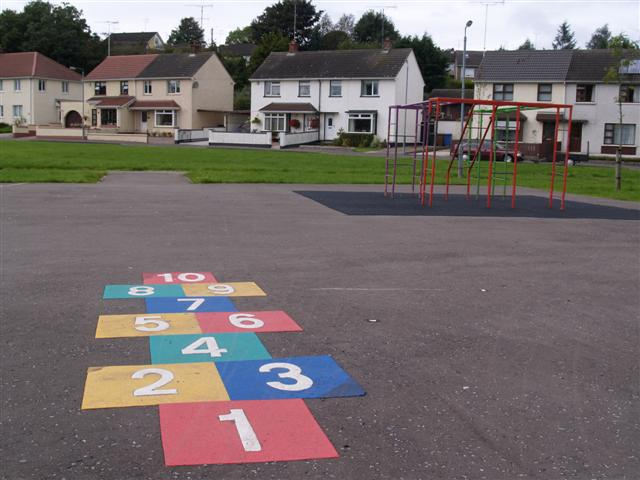 Hop-scotch, Cannondale, Omagh. We used to have chalk it out ourselves, (get out the violins!).